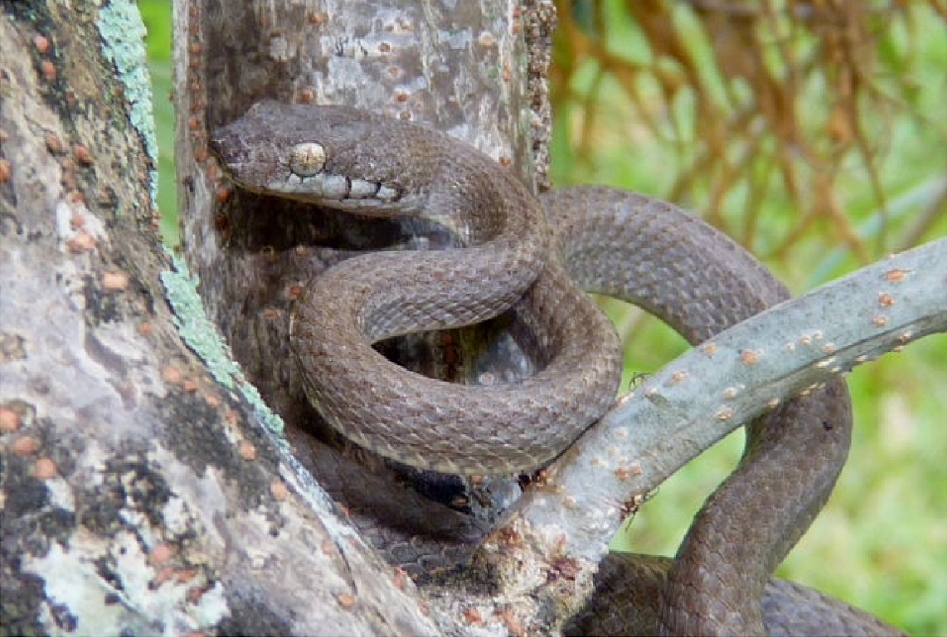 Lycodryas cococola male holotype (ZSM 41/2010) from Grand Comoro